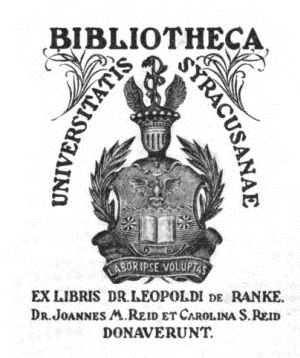 The Rev. J. M. Reid bought the library of the celebrated German historian Leopold von Ranke in 1887 and donated these books to Syracuse University.